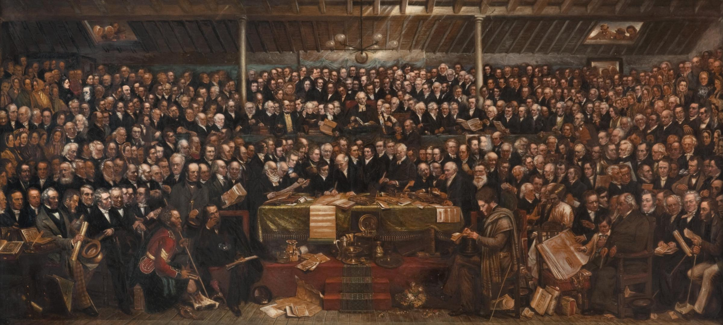 Painting by David Octavius Hill (died 1870) of the Disruption of 1843 which formed the Free Church of Scotland. (not ideal quality as scanned from a double page spread and edited to minimise the problems this has caused)